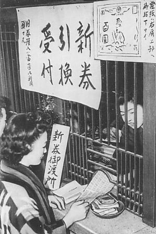 Changeover to the New-Yen in 1946